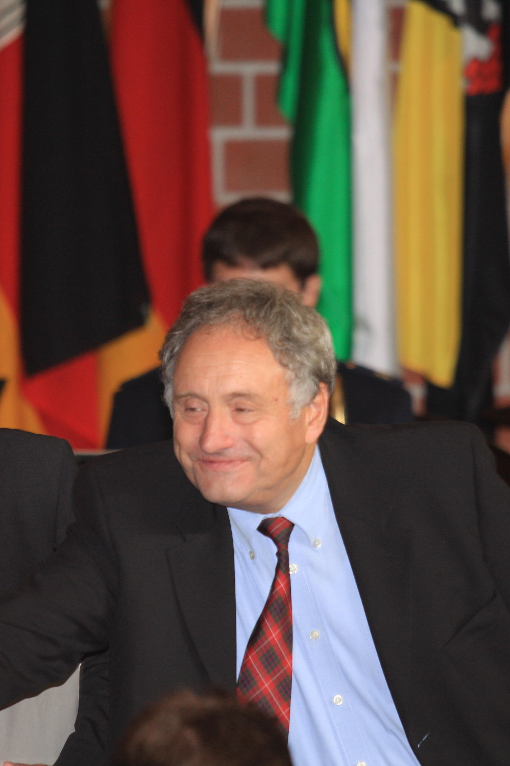 Jürgen Storbeck, former head of Europol